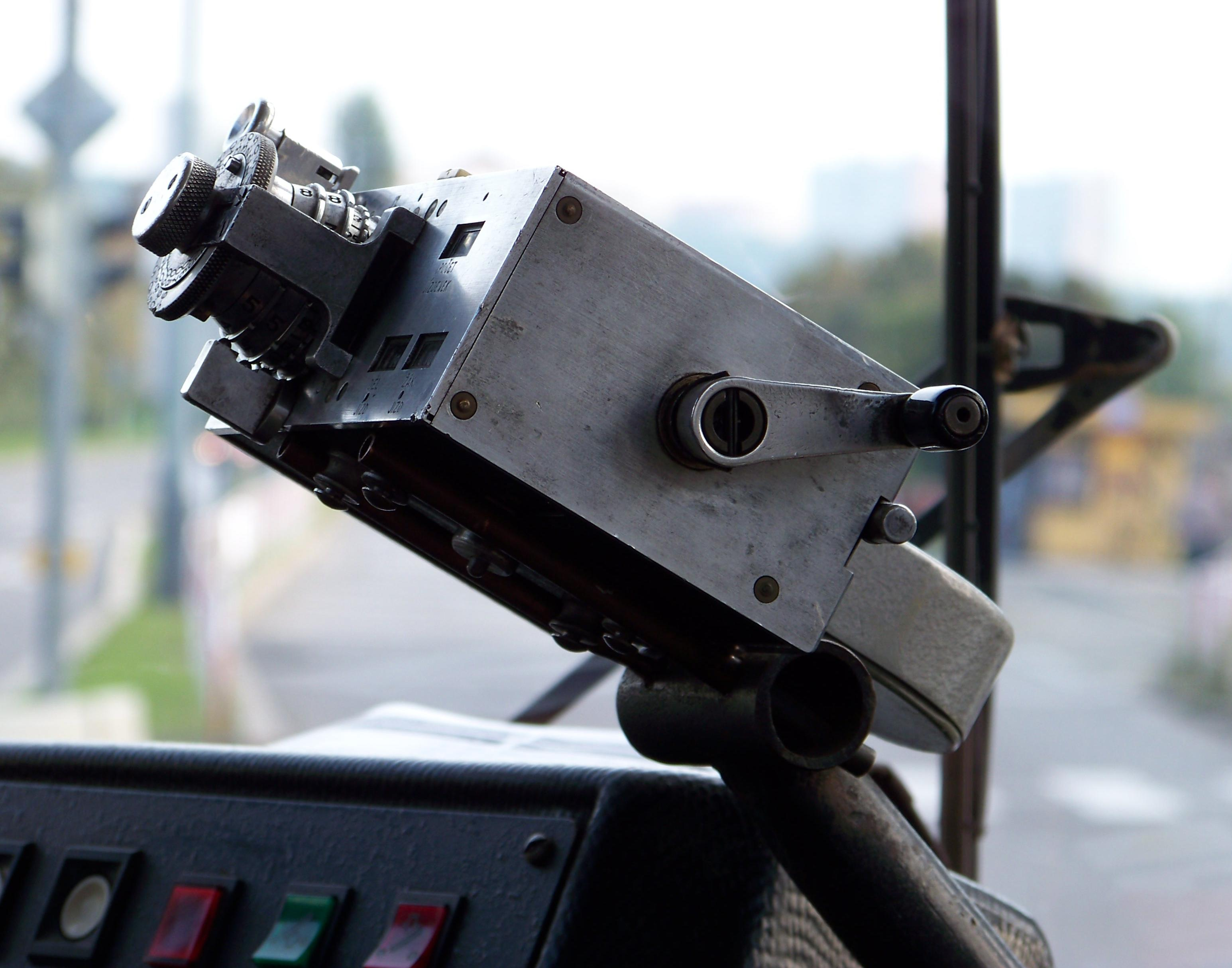 Historical driver-operated ticket machine in an Ikarus 280.10 bus. (Prague-Háje, the Czech Republic.)